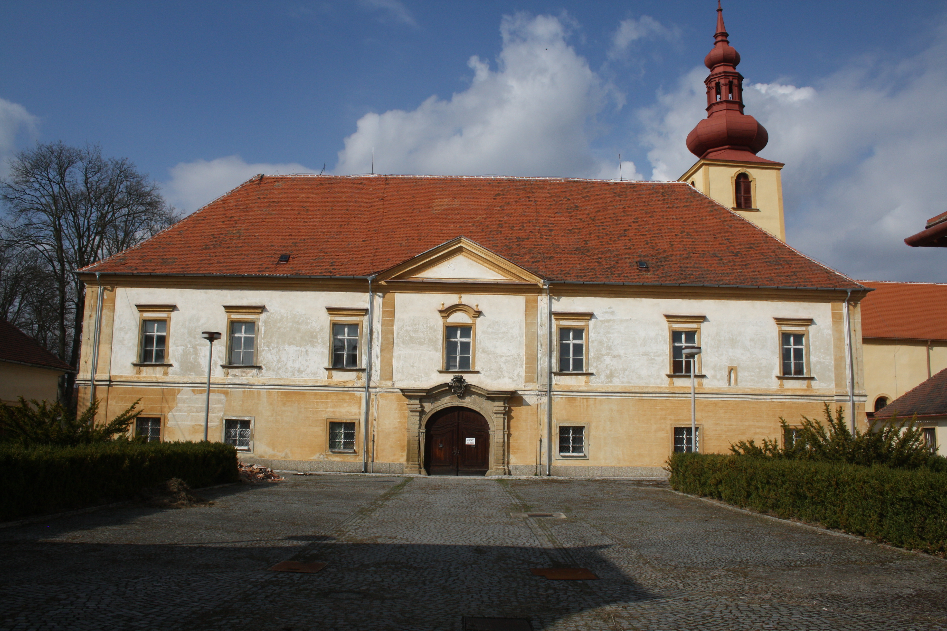 Dalešice Chateau place and building.